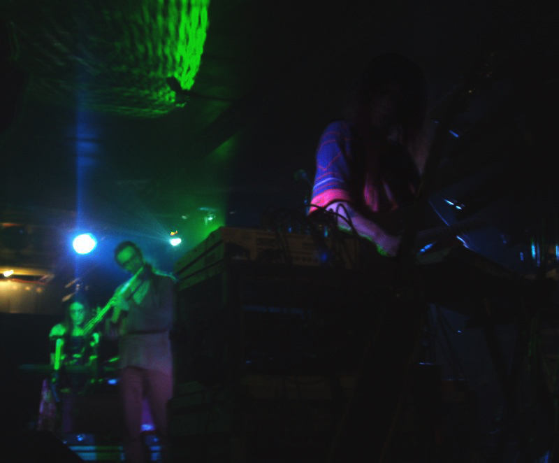 The Ozric Tentacles at Newcastle University, June 1st 2005. L-R: Brandi (keyboards), Champignon (flute), Ed (guitar). Taken by myself, CC-by license.